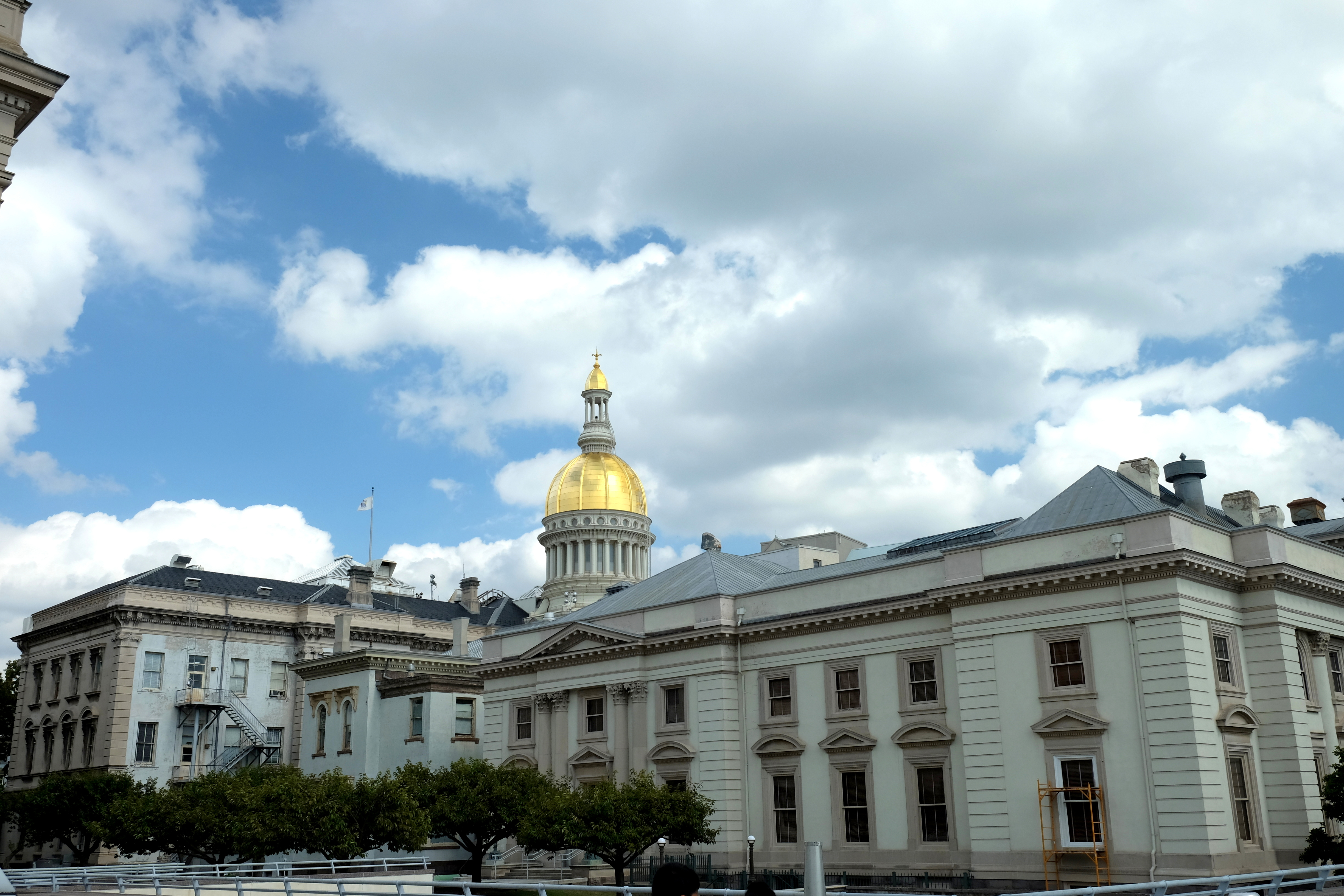 NJ State House or Capitol, Trenton, NJ